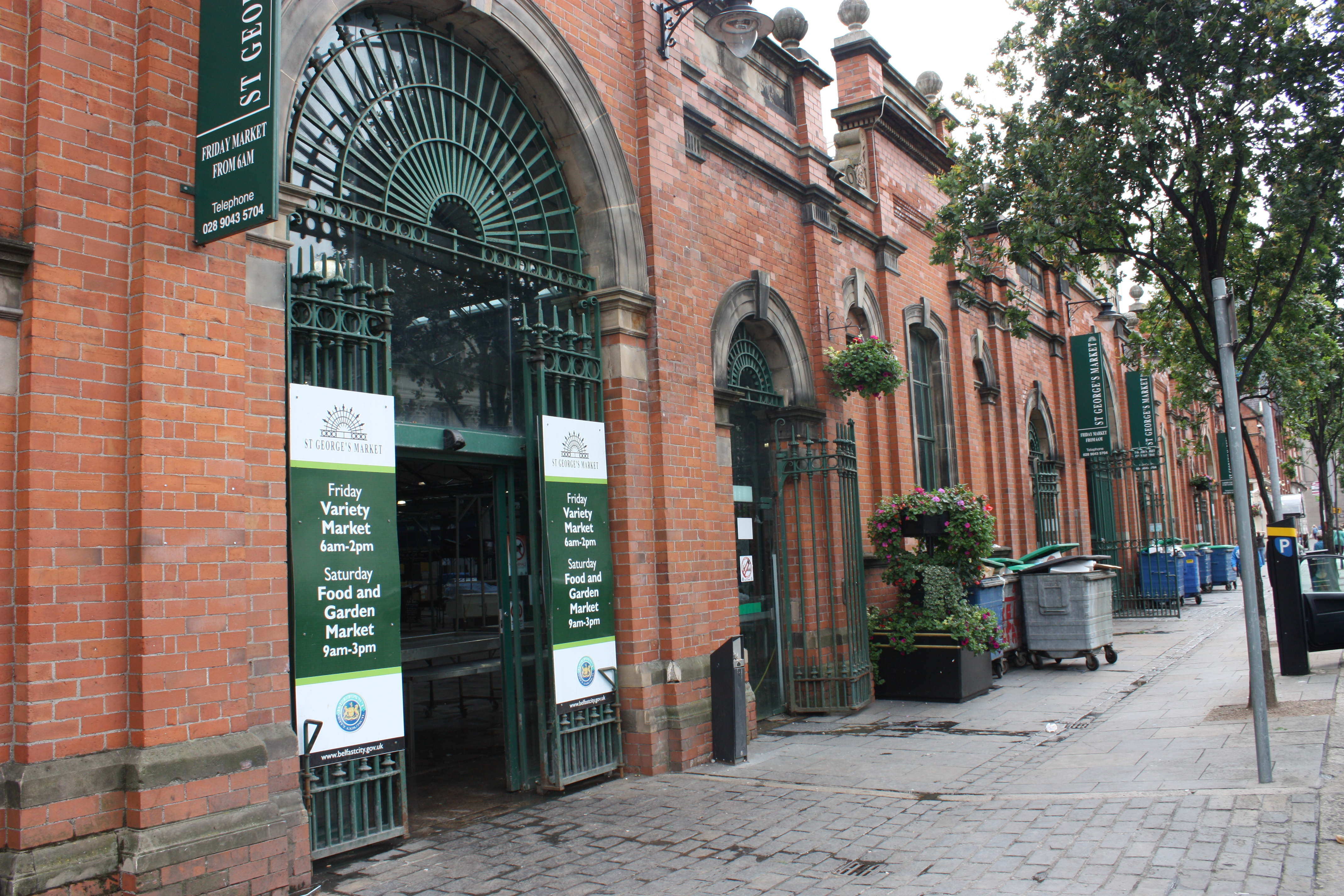 St Georges Market, May Street side, Belfast, Northern Ireland, July 2010